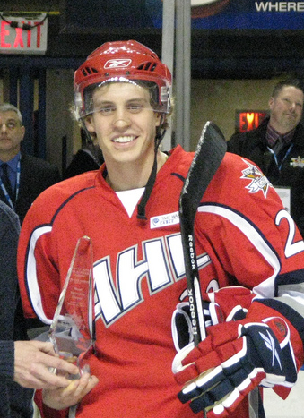 Tyler Ennis during the 2010 AHL All-Star Game